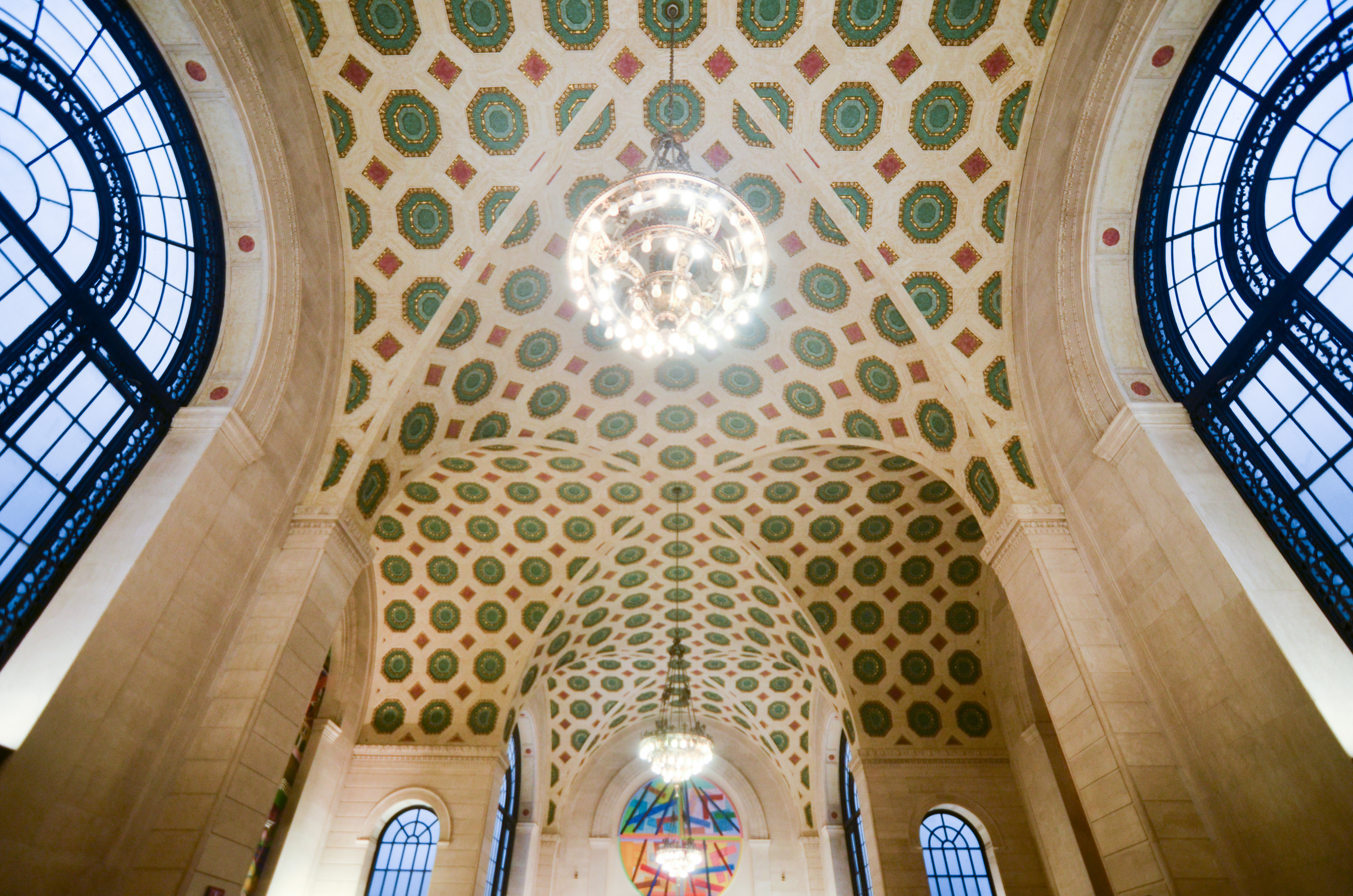 Cleveland Public Library